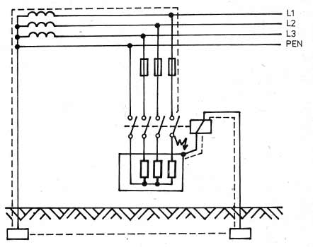 defect voltage protect